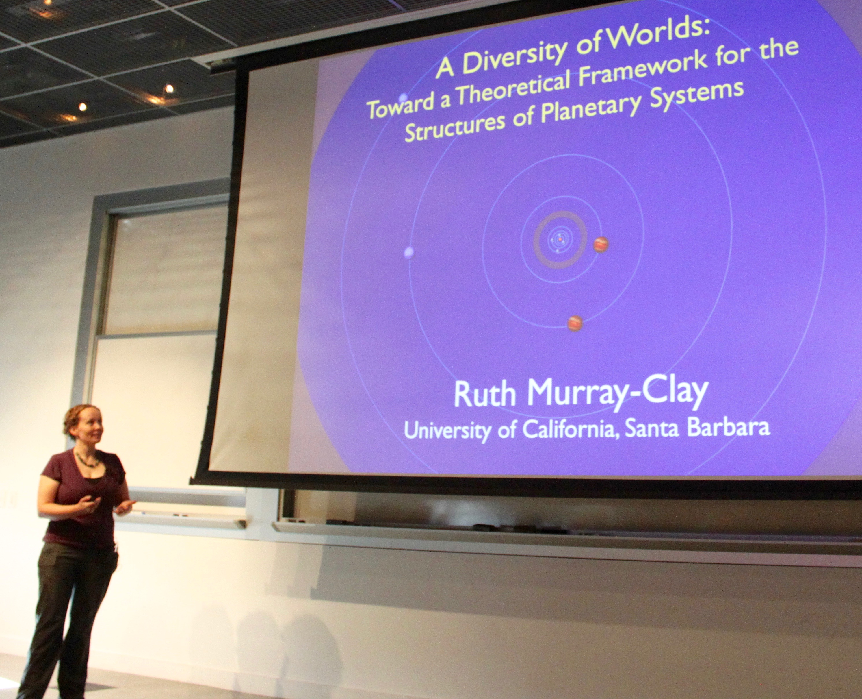 Ruth Murray-Clay presenting at the 2015 ExSoCal meeting at CalTech in Pasadena.